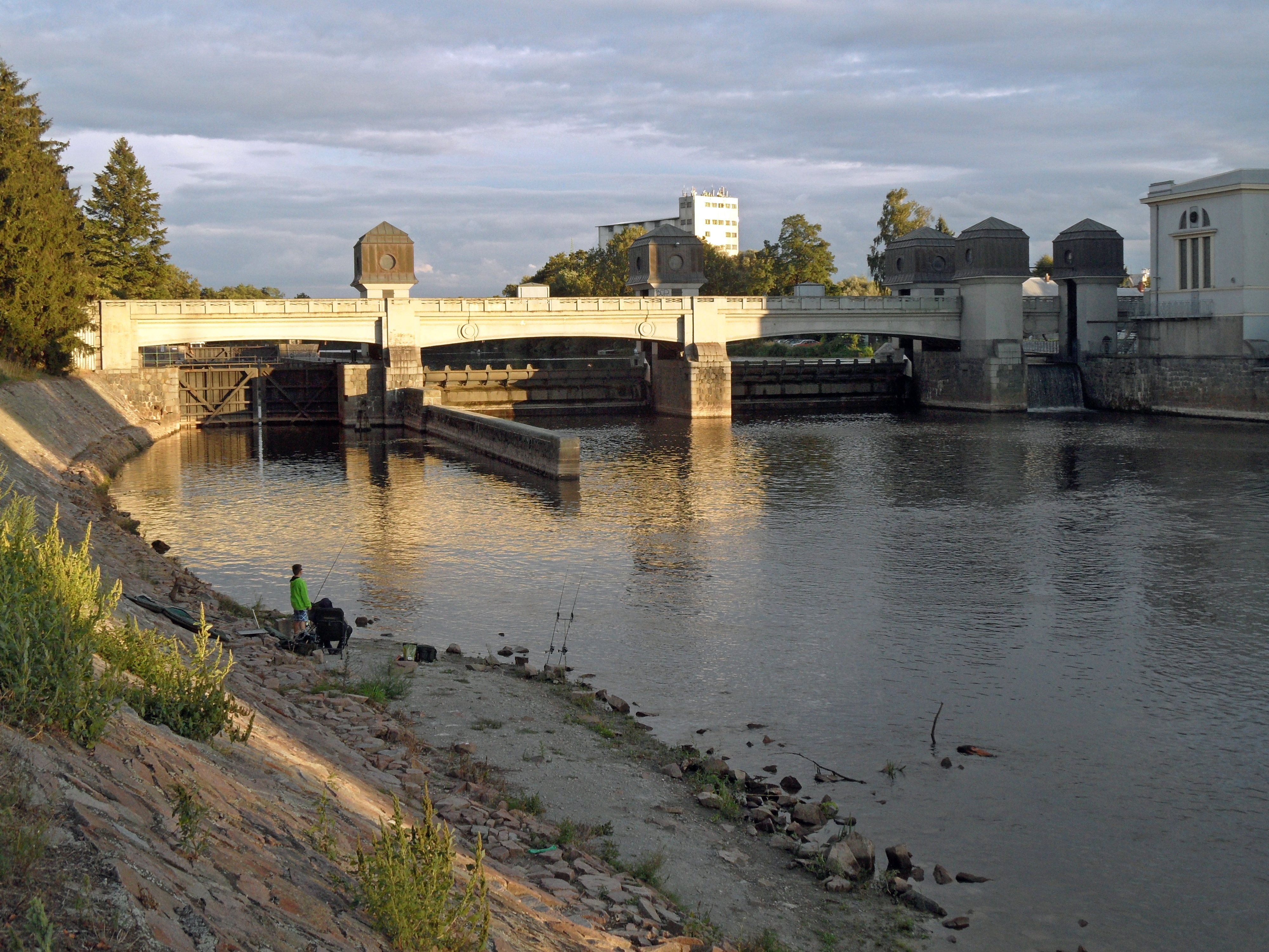 Lock Přelouč F. Lower Part, Overview. Pardubice District, the Czech Republic.